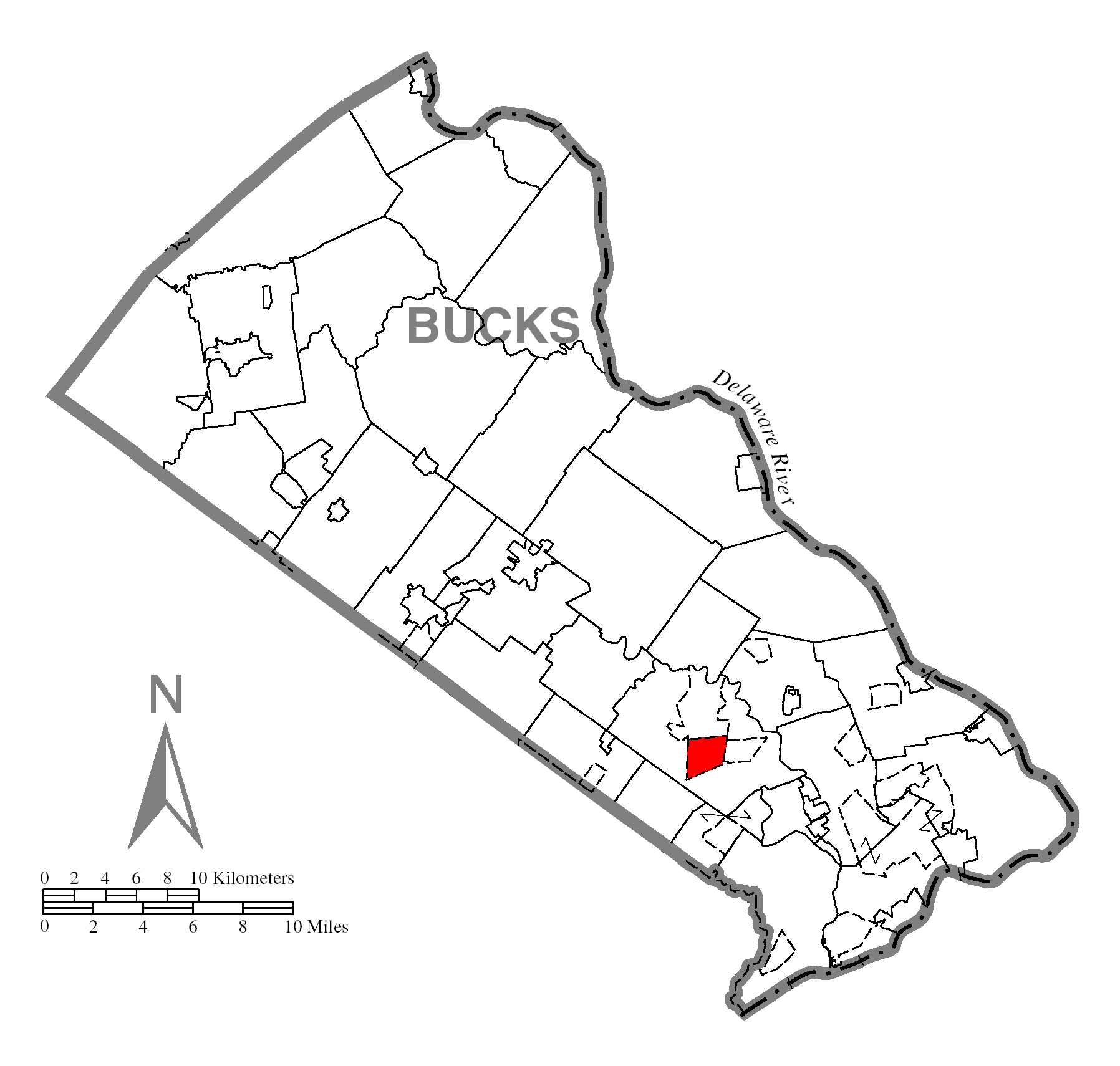 A map of Bucks County showing Churchville, Pennsylvania (alternate) highlighted on the map.